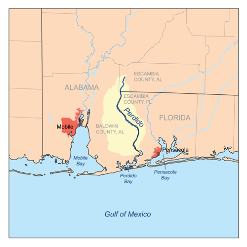 This is a map of the Perdido River watershed.